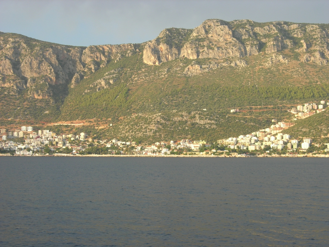 The turkish town of Kaş (Antalya) seen from South